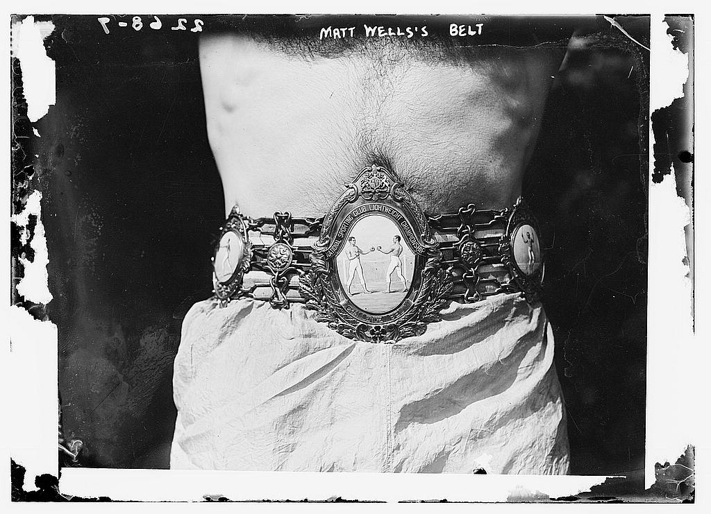 Matt Wells National Sporting Club lightweight boxing belt (LOC) circa 1911 Bain News Service,, publisher. Matt Wells belt [between ca. 1910 and ca. 1915] 1 negative : glass ; 5 x 7 in. or smaller. Notes: Title from data provided by the Bain News Service on the negative. Photo shows welterweight boxer Matthew "Matt" Wells (1886-1953). (Source: Flickr Commons project, 2008) Forms part of: George Grantham Bain Collection (Library of Congress). Subjects: Boxing Format: Glass negatives. Repository: Library of Congress, Prints and Photographs Division, Washington, D.C. 20540 USA, General information about the Bain Collection is available at Persistent URL: Call Number: LC-B2- 2268-7